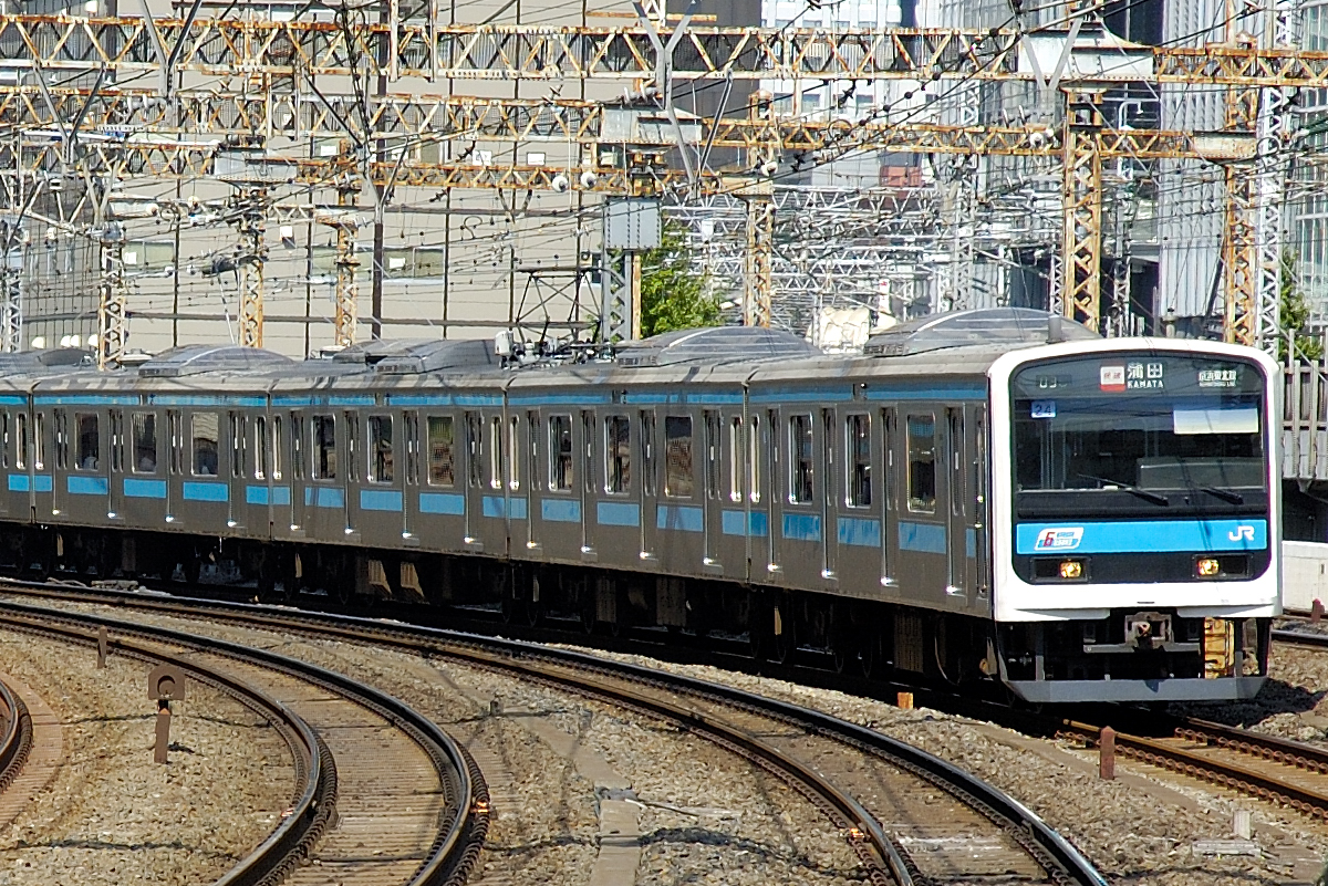 JR East 209-0, taken at Yurakucho Station